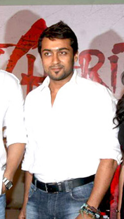 Suriya at the press meet of Ram Gopal Varma's Rakht Charitra